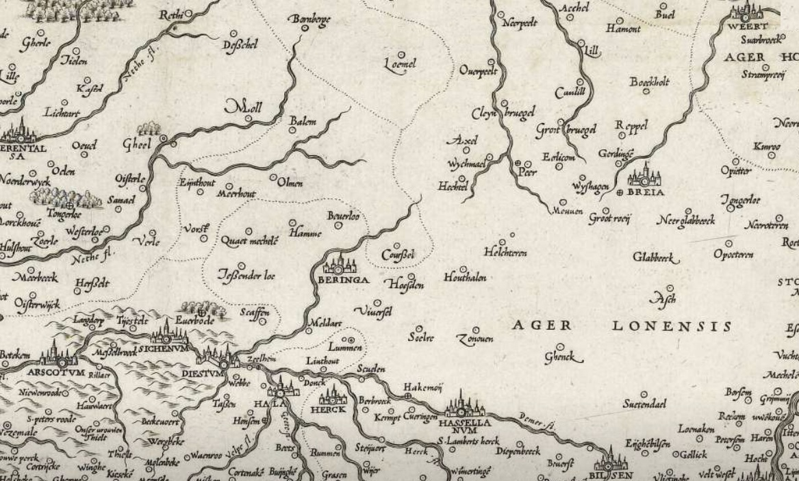 Map of Brabant, Jacob Bos, naar Jacob van Deventer, 1558.